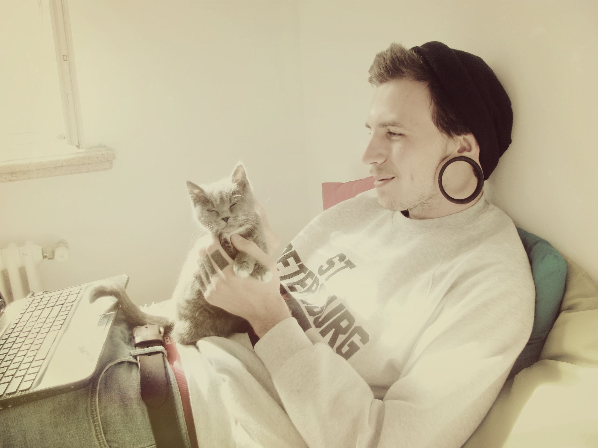 A man with a large tunnel, tunnel